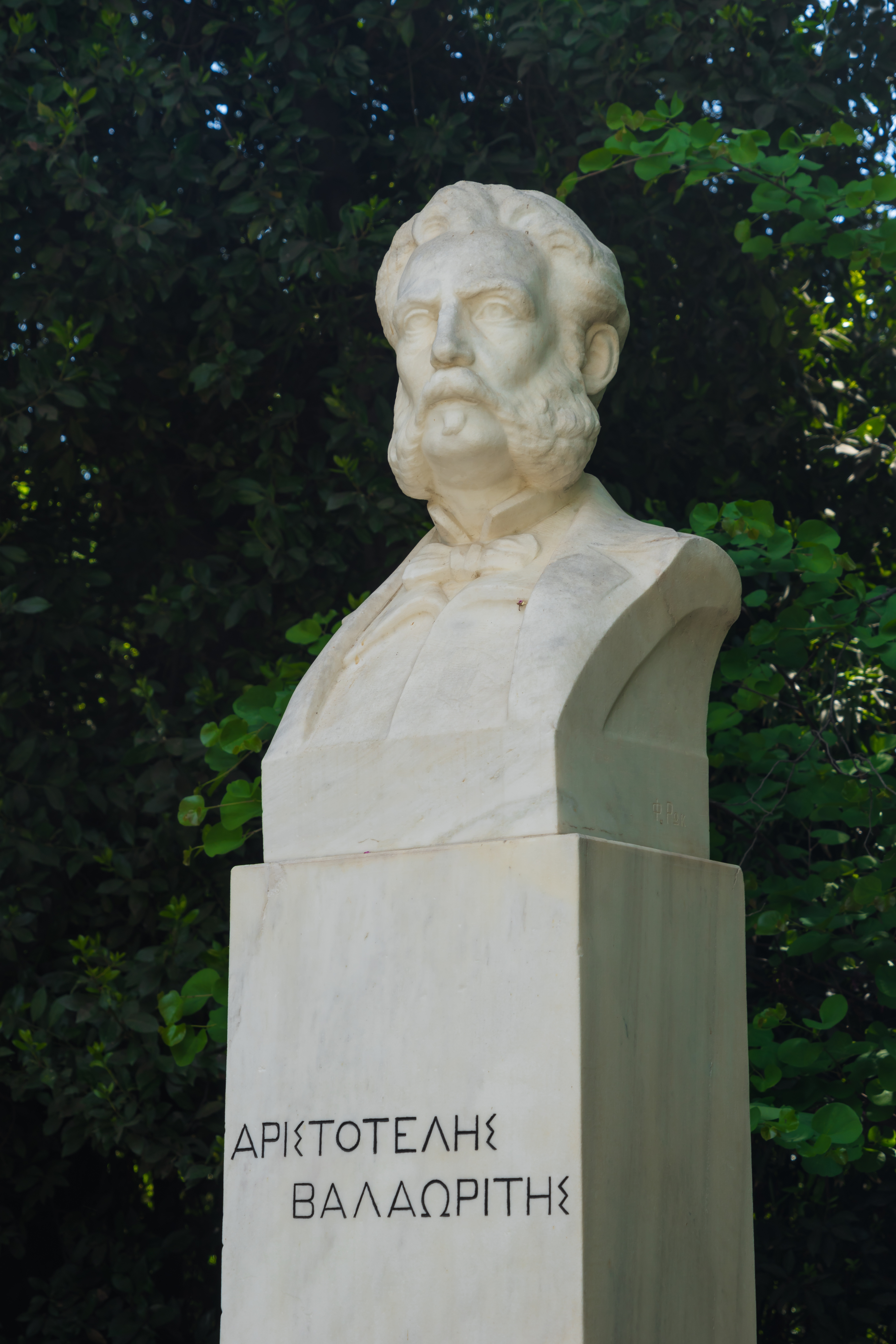 Aristotelis Valaoritis (1824 - 1879), greek poet. Marble bust from 1926 made by Fokion Rok (1891 - 1945), greek sculptor, cartoonist and writer. National Garden of Athens, Greece.[1]